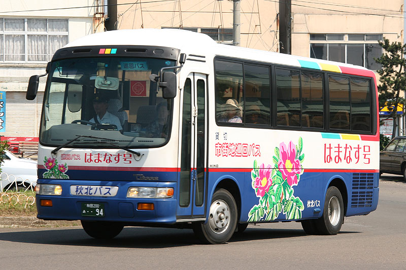 Noshiro City Circulate Bus "Hamanasu-go" (Hino Liesse KC-RX4JFAA / Hino body) in Noshiro, Akita, Japan